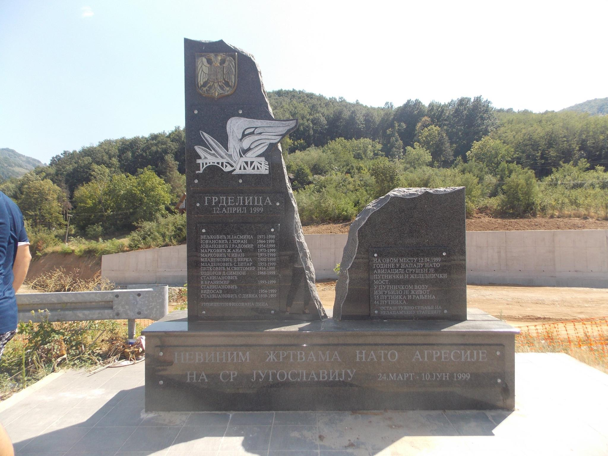 Споменик у Грделичкој клисури